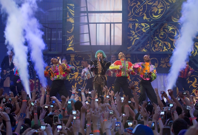 Lady Gaga performing The Edge of Glory at 2011 Much Music Video Awards